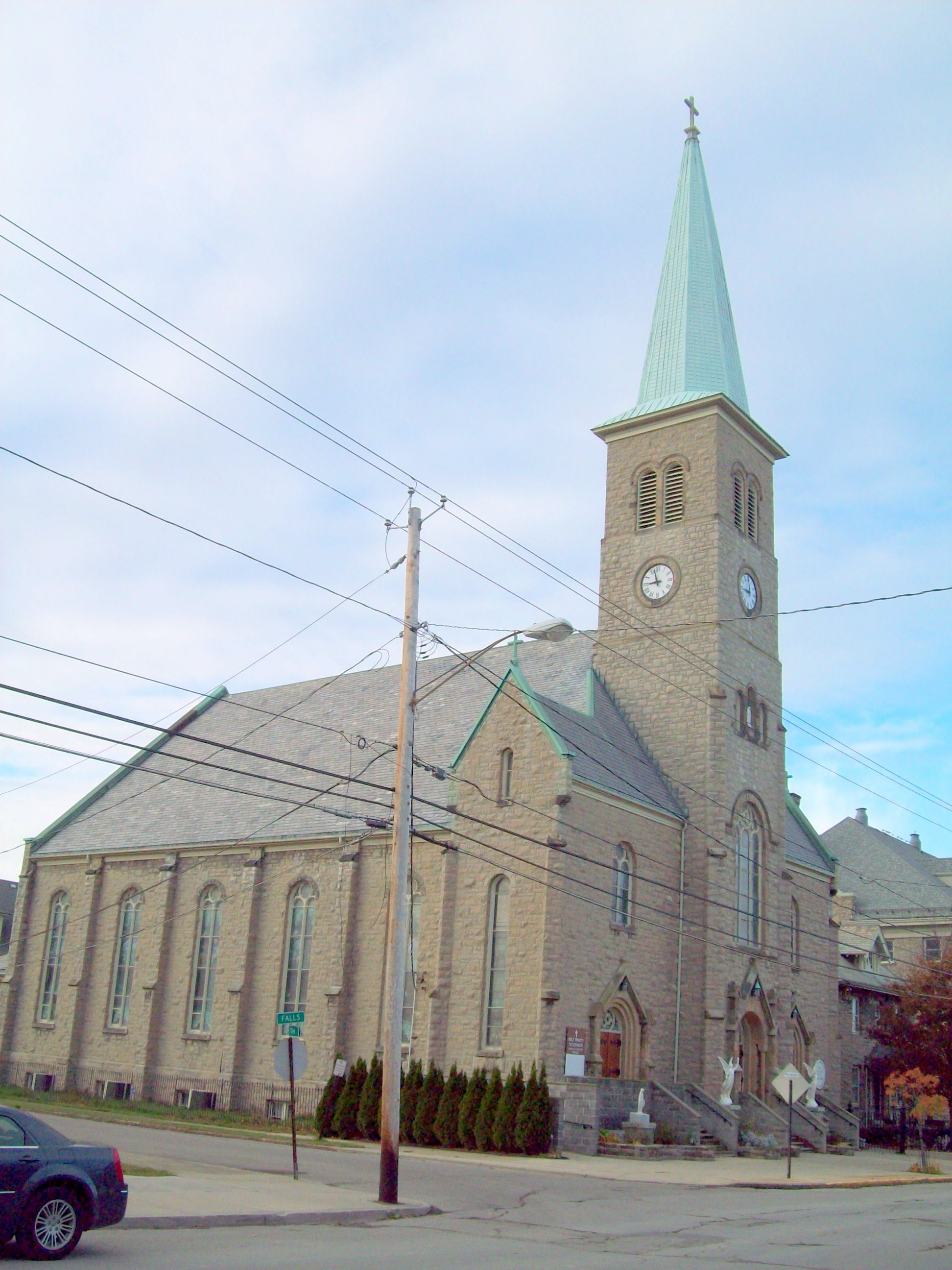 Holy Trinity Roman Catholic Church, Niagara Falls, New York, November 2010